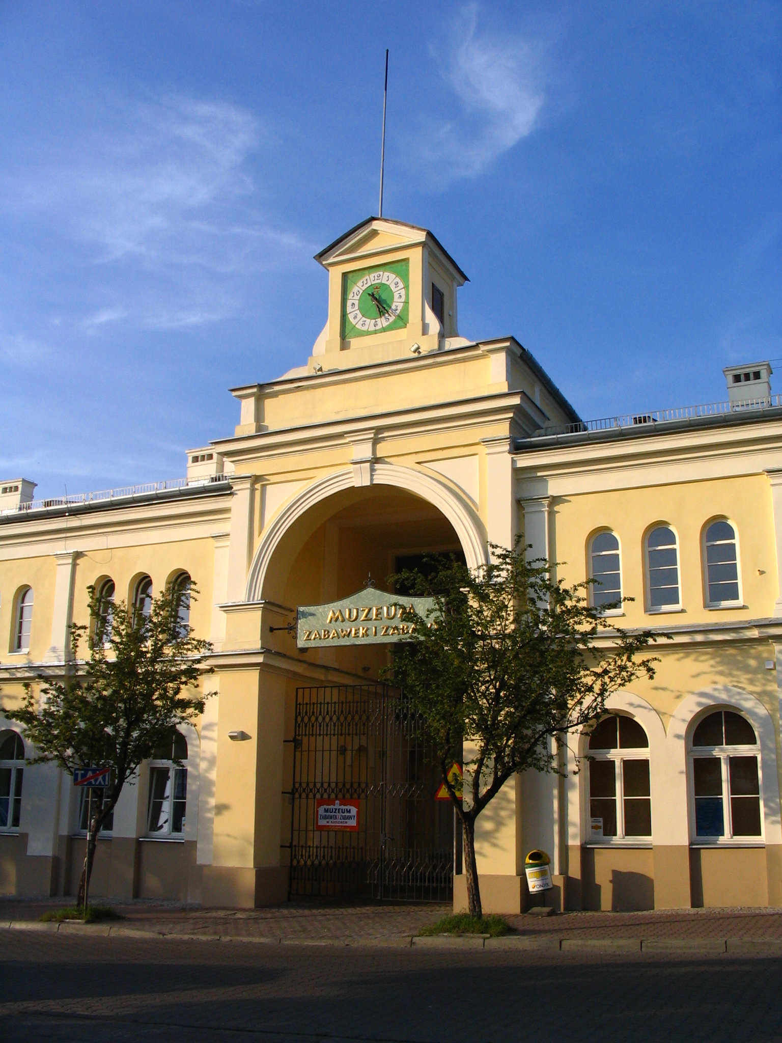 Museum of Toys and Fun in Kielce